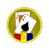 Emblem of the USAAF 341st Fighter Squadron